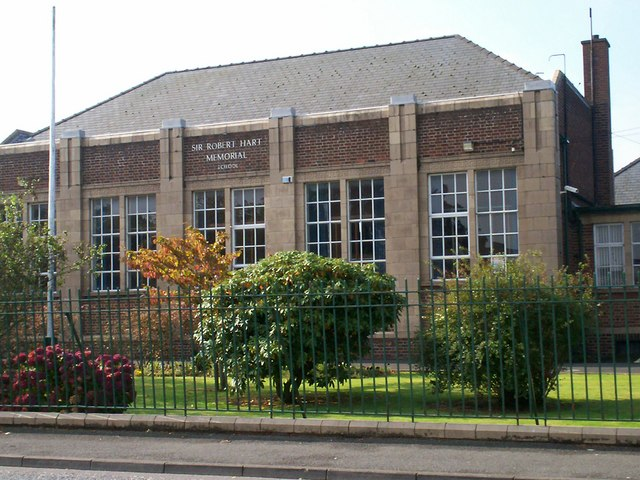 Sir Robert Hart Memorial School, Charles Street, Portadown. This school was named after Sir Robert Hart who was born in Portadown in 1835. He spent most of his adult life in China as Inspector General of the Chinese Imperial Maritime Customs from 1863 - 1908. He died in 1911 and was buried in the graveyard at Bisham on the bank of the River Thames.